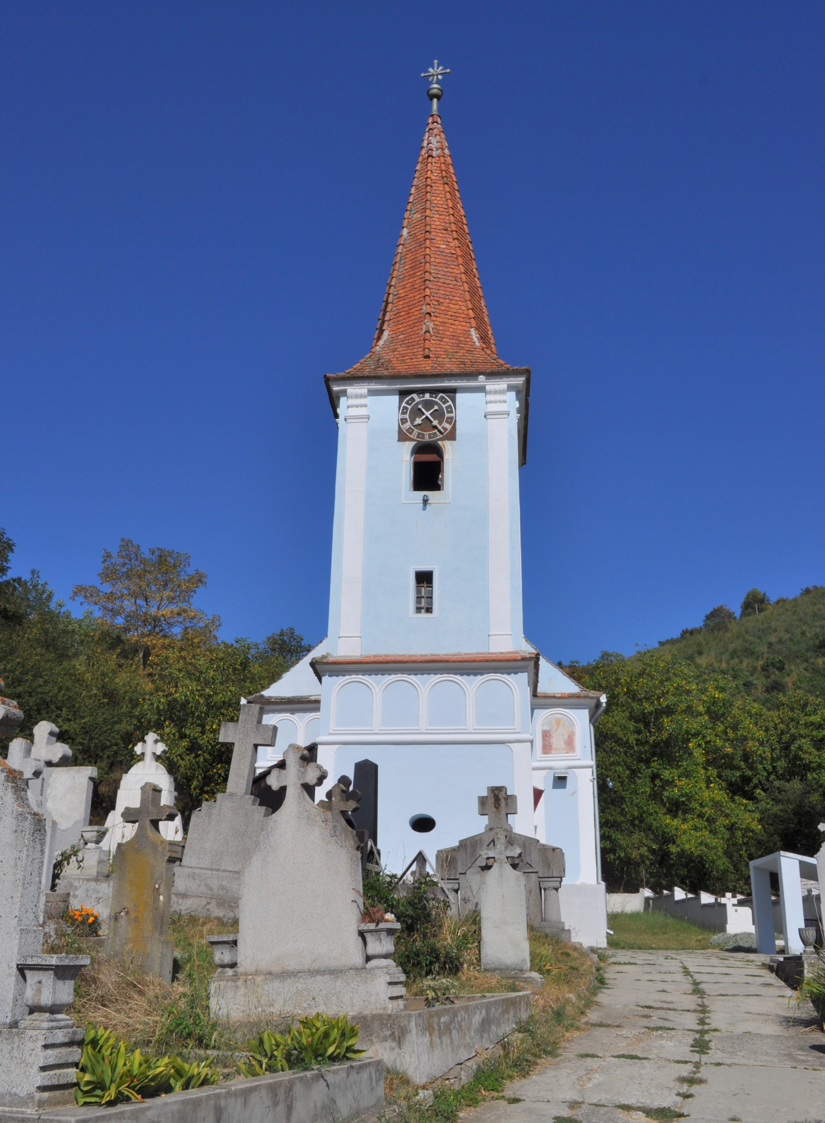 The Orthodox church in Galeș, Sibiu countyRomână: Biserica ortodoxă din Galeș, județul Sibiu